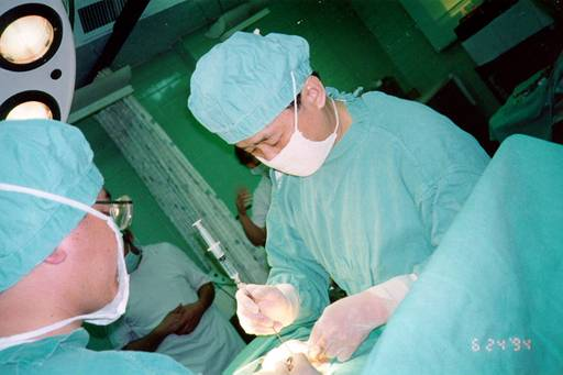 Hsiao Chung-cheng during operation